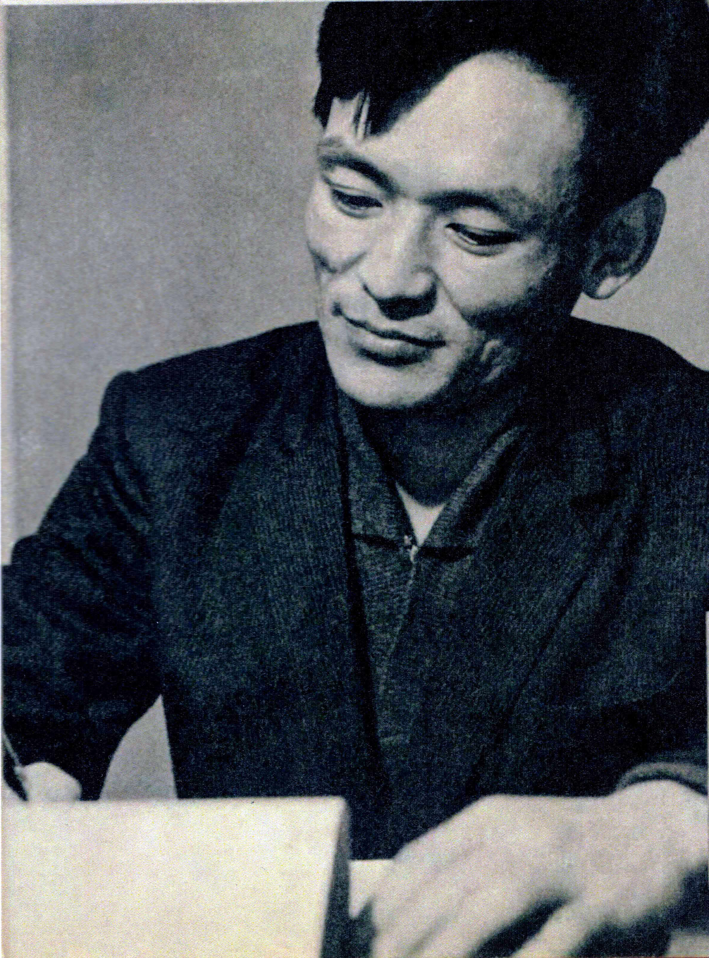 Nobuo Yamada (Screenwriter)